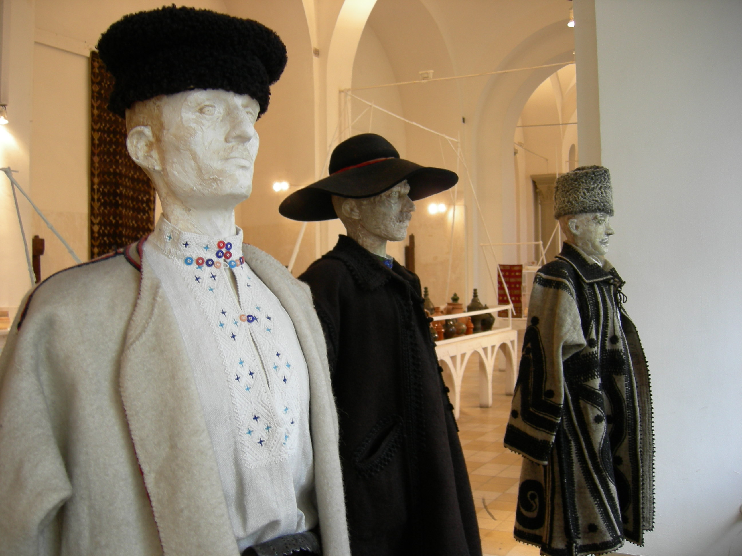 Textiles, Museum of the Romanian Peasant, Bucharest, Romania.